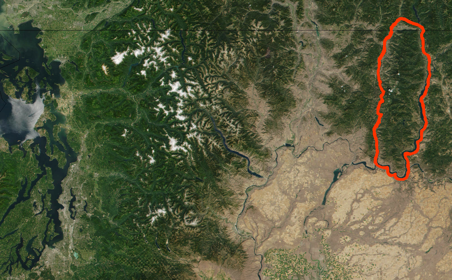 Kettle River Range (outined in red) and north central Washington State (USA), and southern edge of British Columbia (Canada), from cropped and modified NASA True Color MODIS satellite photograph image from NASA Visible Earth Collection. Original Image: Washington.A2001223.1920.250m.jpg (3600x4800)